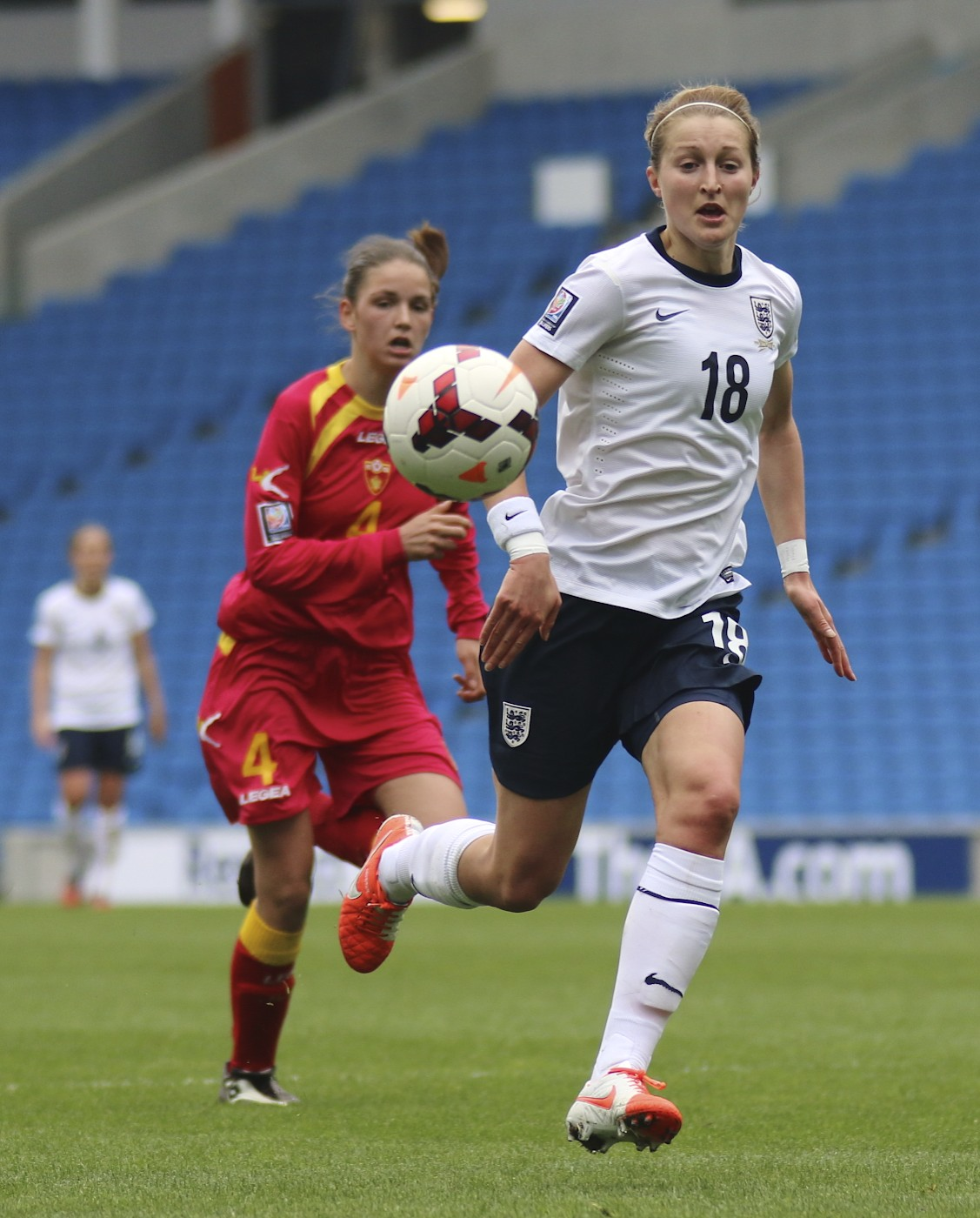 Ellen White of England and Maja Micunović of Montenegro